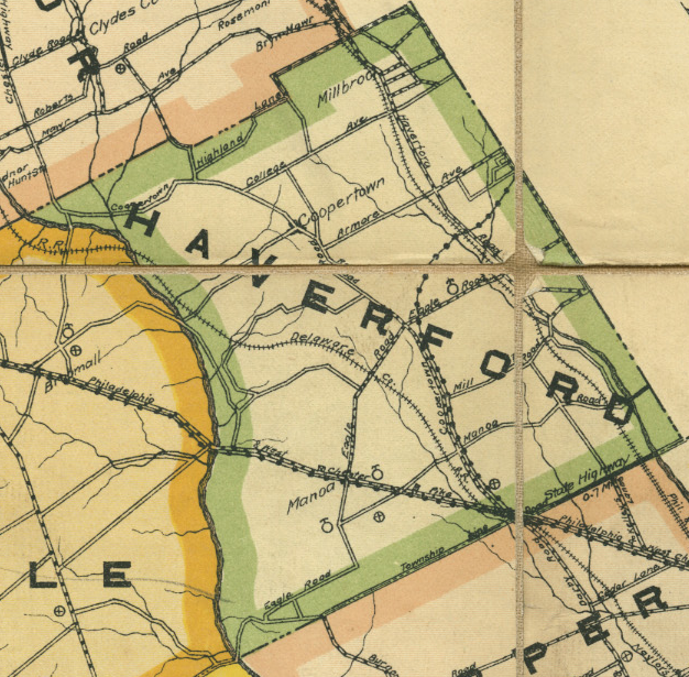 1913 map of Haverford Township, Pennsylvania, cropped from a Delaware county map